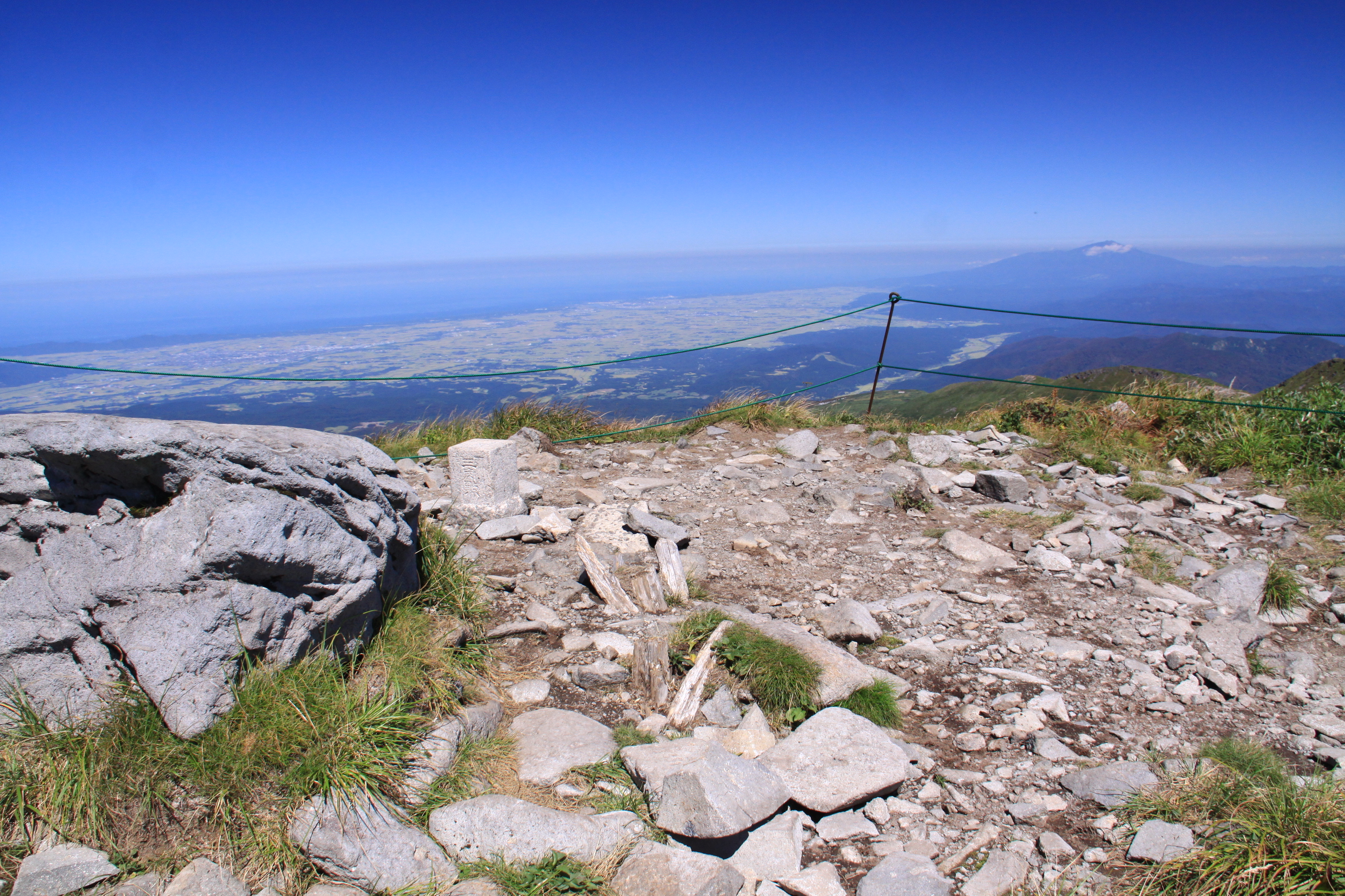 Station of triangulation, Gassan.JPG